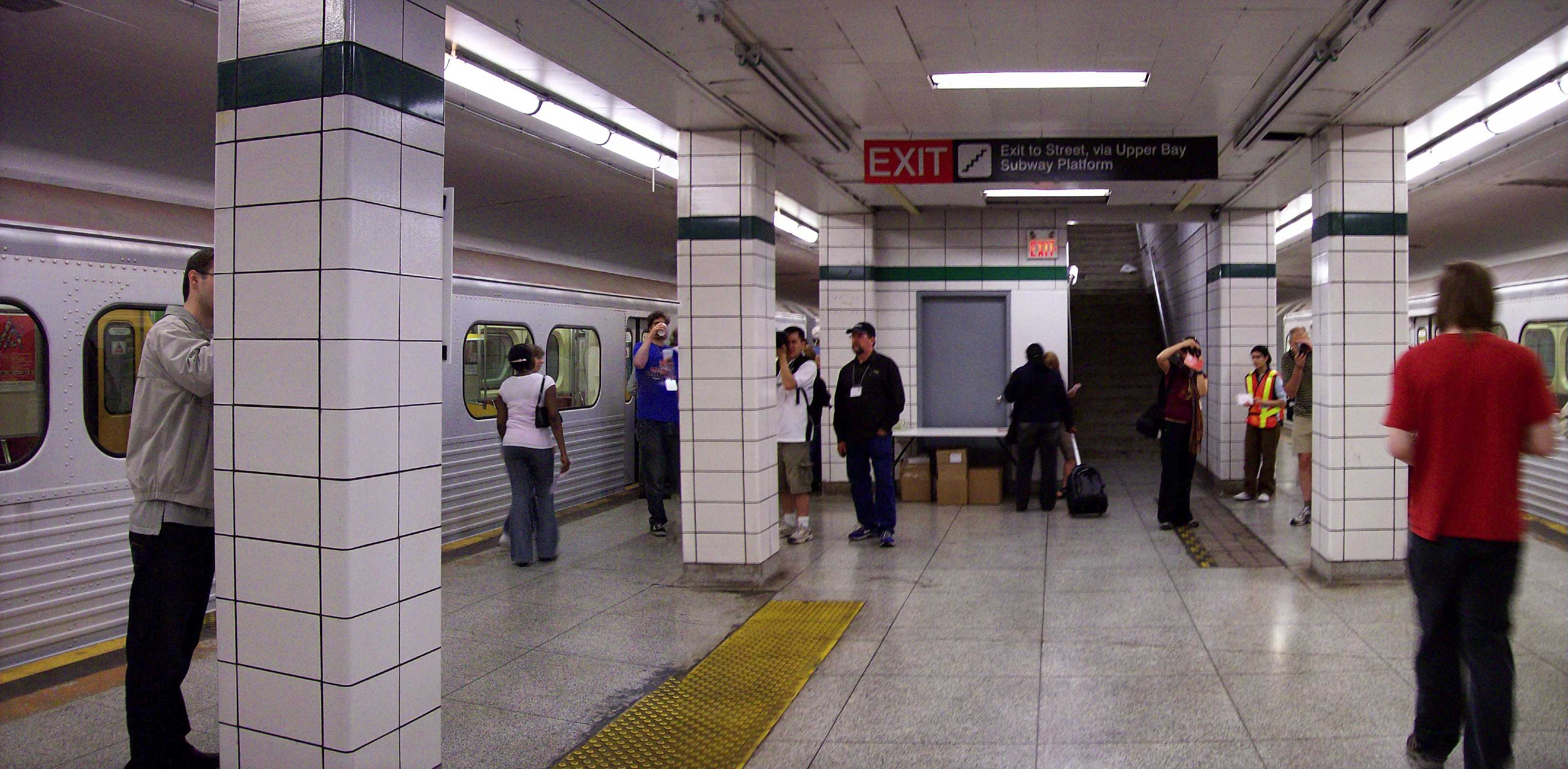 Panorama composite picture of the Lower Bay station platform exit to the Upper Bay platform. Notice that the escalator has been completely covered over with tiles and a door. The Cumberland exit still has the remains of its escalator.